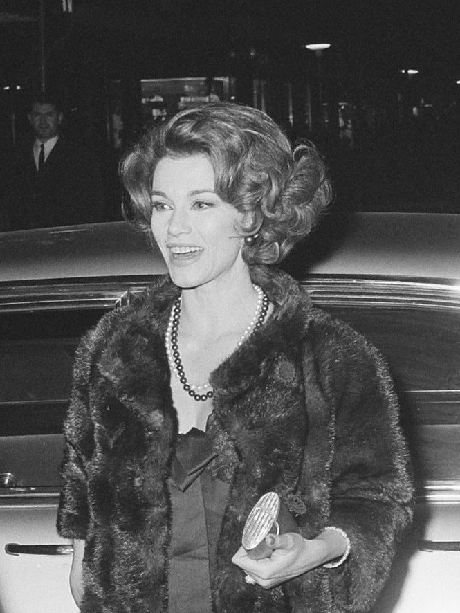 Linda Christian at the opening night of the Dutch film 10:32. Rotterdam, 26 January 1966